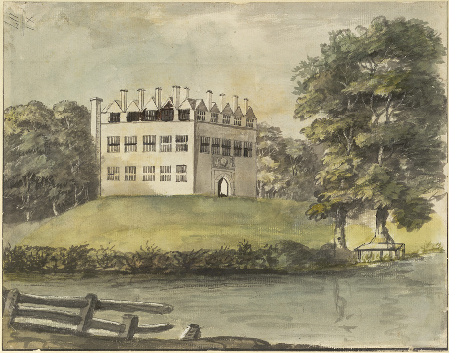 Great Fulford House, Dunsford, Devon, 1780 watercolour. British Library, London, Shelfmark: K Top Vol 11, Item number: 117. Length: 21cm Width: 27.9cm